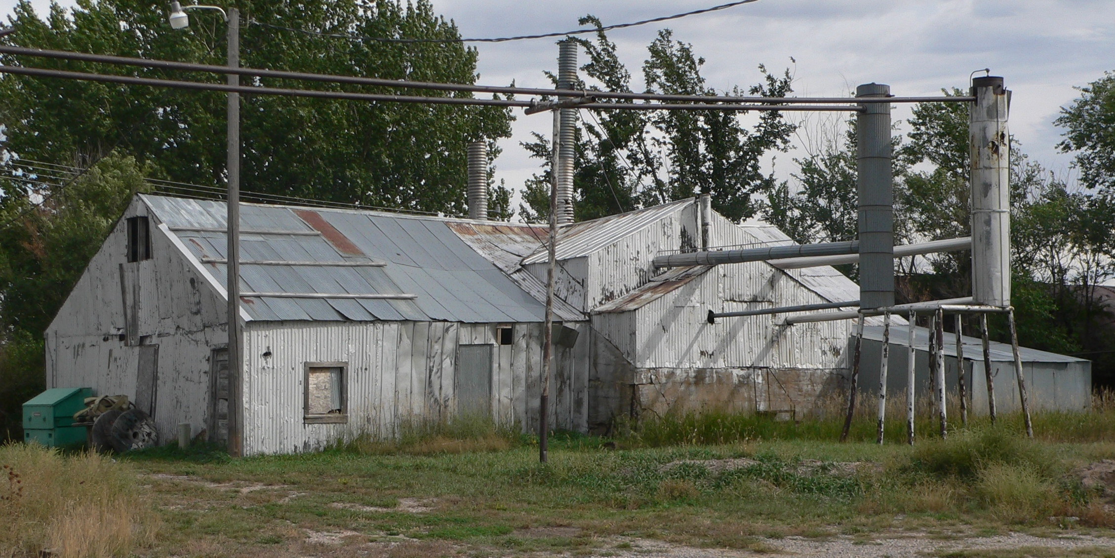 C & H Refinery, located on south side of U.S. Highway 18/20 in southwestern outskirts of Lusk, Wyoming.